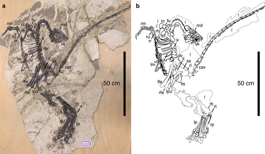 Figure 1: Jianianhualong tengi holotype DLXH 1218. (a) Photograph and (b) line drawing of the specimen. Scale bar, 50 cm. cav, caudal vertebrae; cv, cervical vertebrae; dv, dorsal vertebrae; fu, furcula; lfe, left femur; lh, left humerus; li, left ilium; lis, left ischium; lm, left manus; lp left pes; lpu, left pubis; lr, left radius; lu, left ulna; md, mandible; rc, right coracoid; rfe, right femur; rfi, right fibula; rh, right humerus; ri, right ilium; rm, right manus; rr, right radius; rs, right scapula; rt, right tibiotarsus; ru, right ulna; sk, skull; ss, synsacrum.